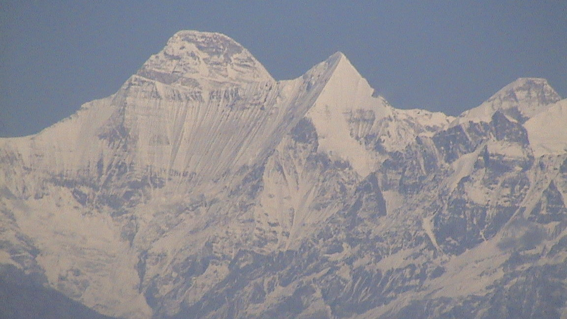 Nanda Devi Massif from Kausani. Self Photo